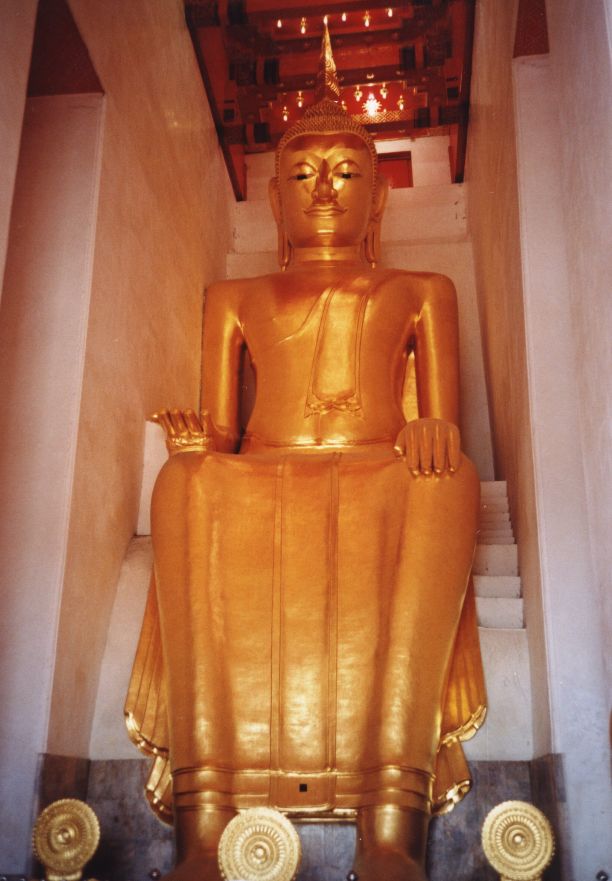 Wat Pa Lelai in Suphanburi, Thailand. The Buddha statue is named Luang Pho To, 23m high. The temple is about 800 years old. Source: Photo by User:Ahoerstemeier on October 27 2000.